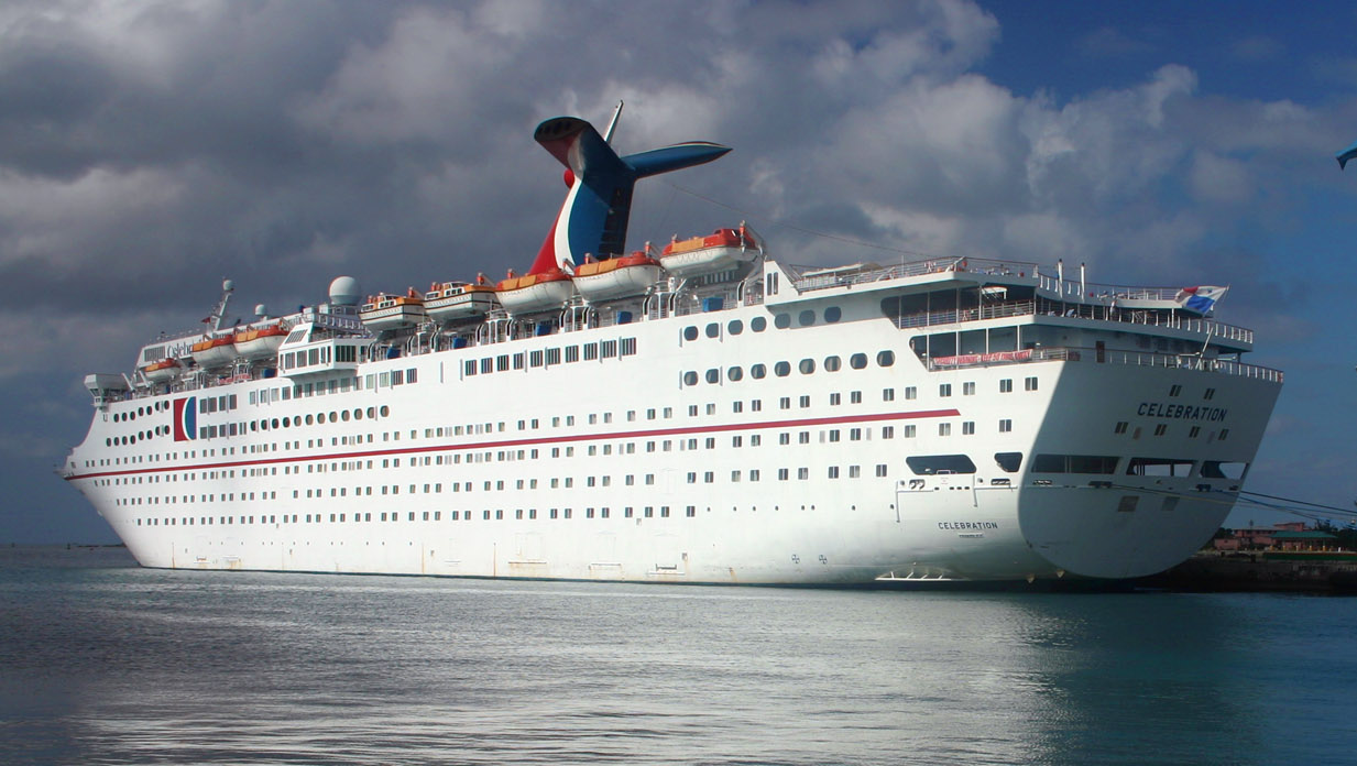 The ship to the right is a Bahamian Navy/Coast Guard patrol boat.